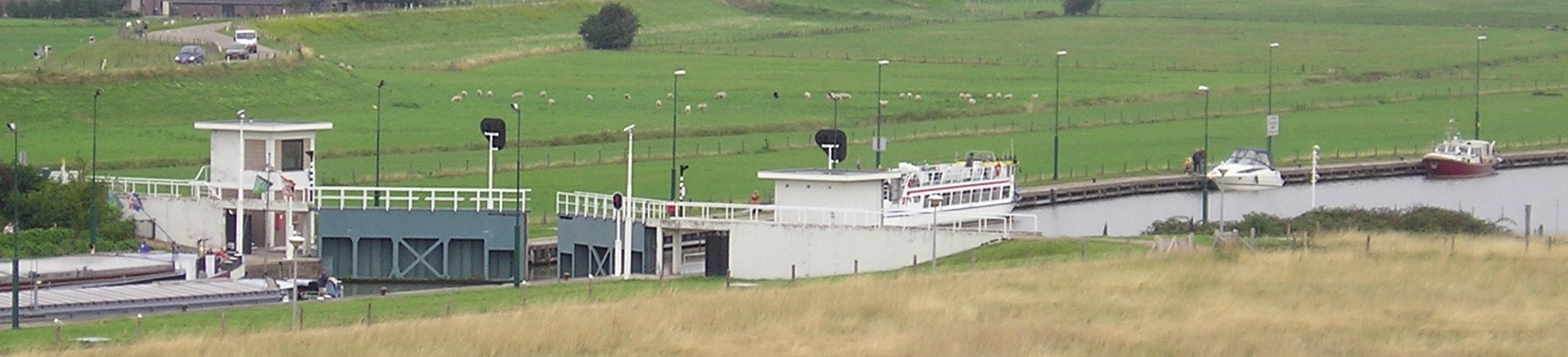 Canal lock Amerongen